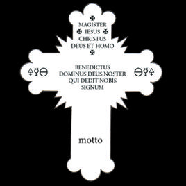 Golden Dawn Rose Cross Lamen rear